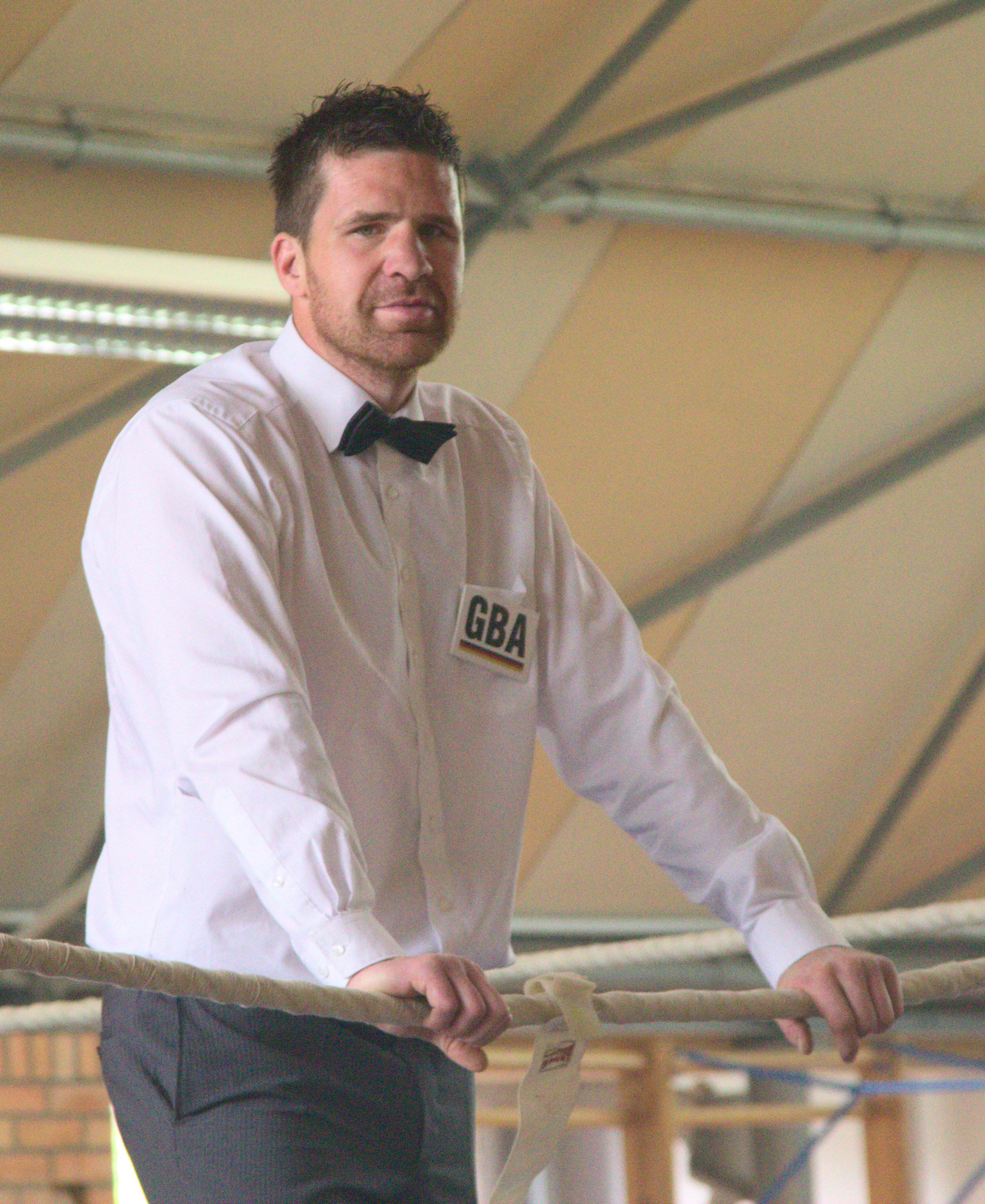 Timo Hoffmann during the shooting of the feature film Herbert in 2014.